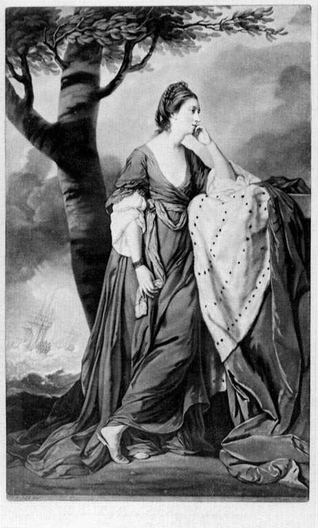 Portrait of Mary Bertie, Duchess of Ancaster and Kesteven (17..-1793